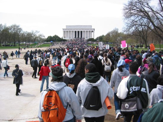 Affirmative Action Demonstration in 2003